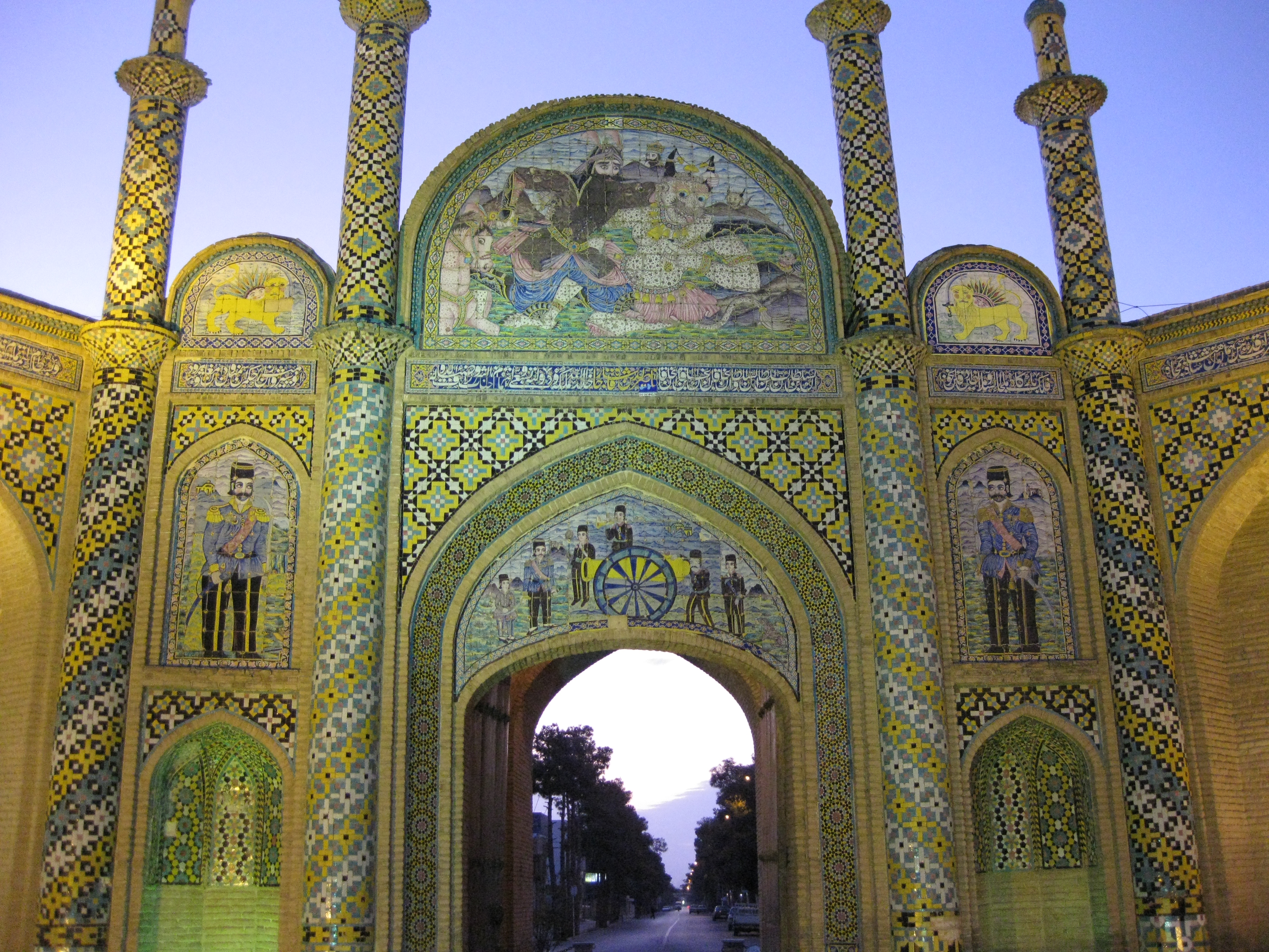 Darvazeye Arge Semnan (Gate of Semnan castle - before the destruction of castle it was it's gate), Iran.